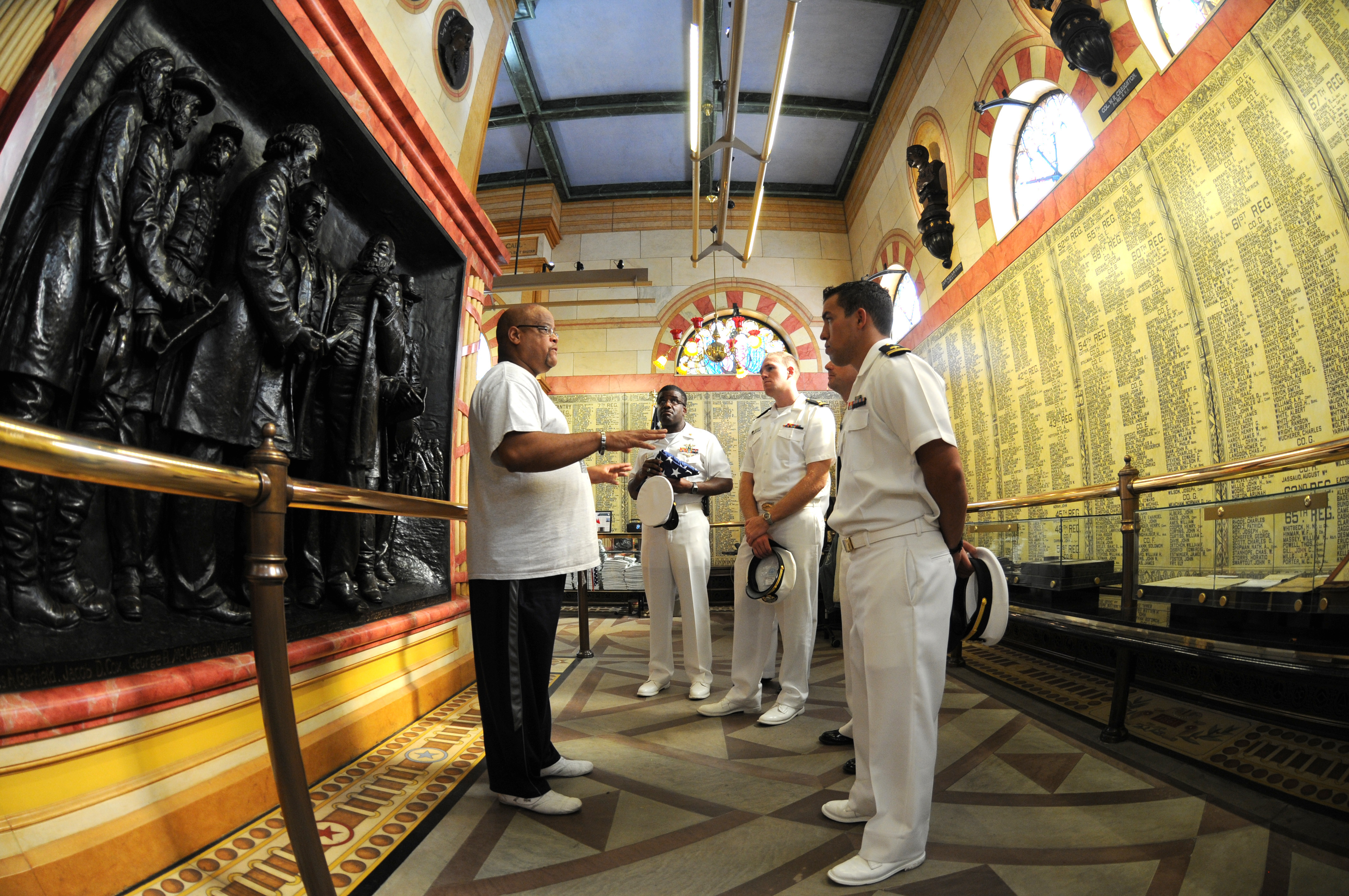 CLEVELAND (Aug. 31, 2010) Sailors from the guided-missile submarine USS Ohio (SSGN 726) tour the Soldiers and Sailors monument with retired Navy submariner Timothy Leslie. The tour is one of several events planned in Cleveland to celebrate Cleveland Navy Week Aug. 30 through Sept. 6, one of 19 Navy Weeks taking place throughout the United States this year. (U.S. Navy photo by Mass Communication Specialist 1st Class Katrina Sartain/Released)